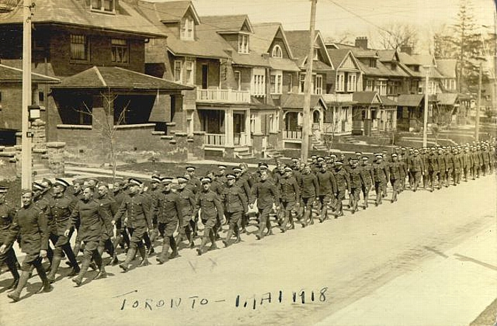 Royal Flying Corps, marching in Toronto, Canada